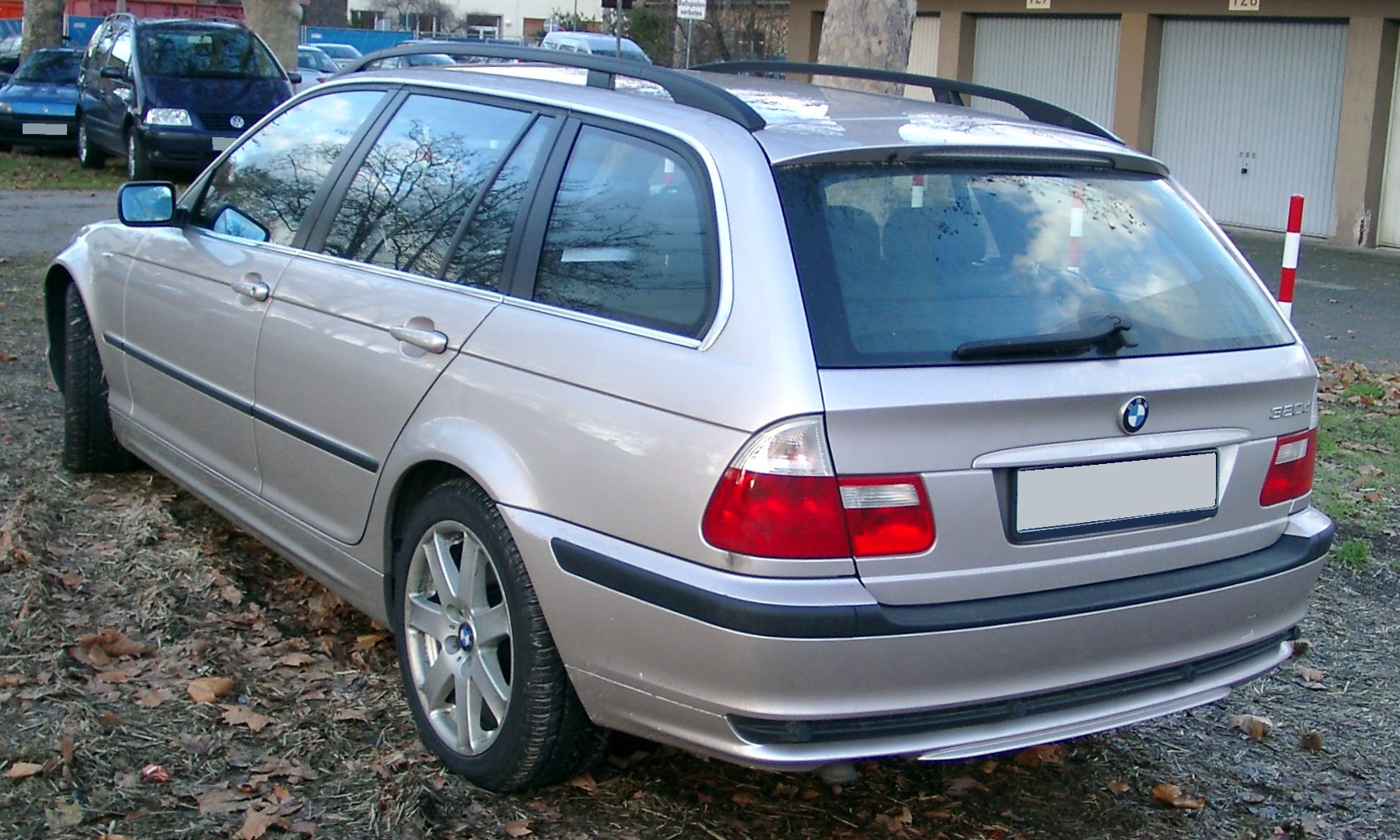 BMW E46 Touring